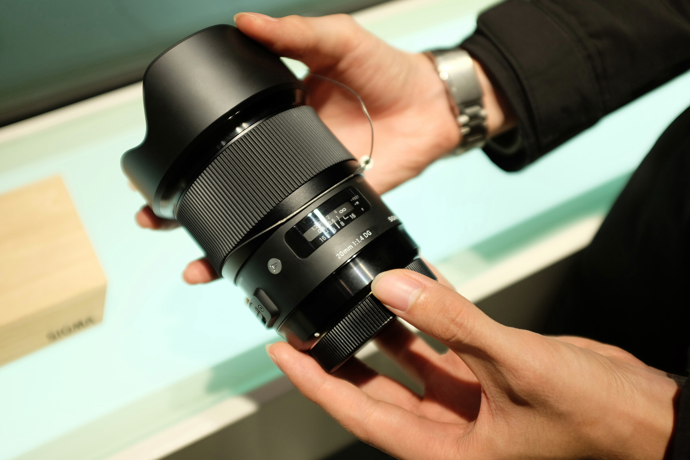 Sigma ART 20mm F1.4 DG HSM lens, on hand.